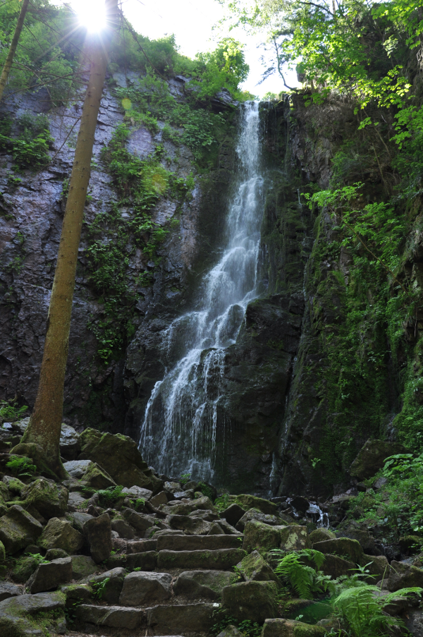 The Burgbach waterfall near Bad Rippoldsau-Schapbach